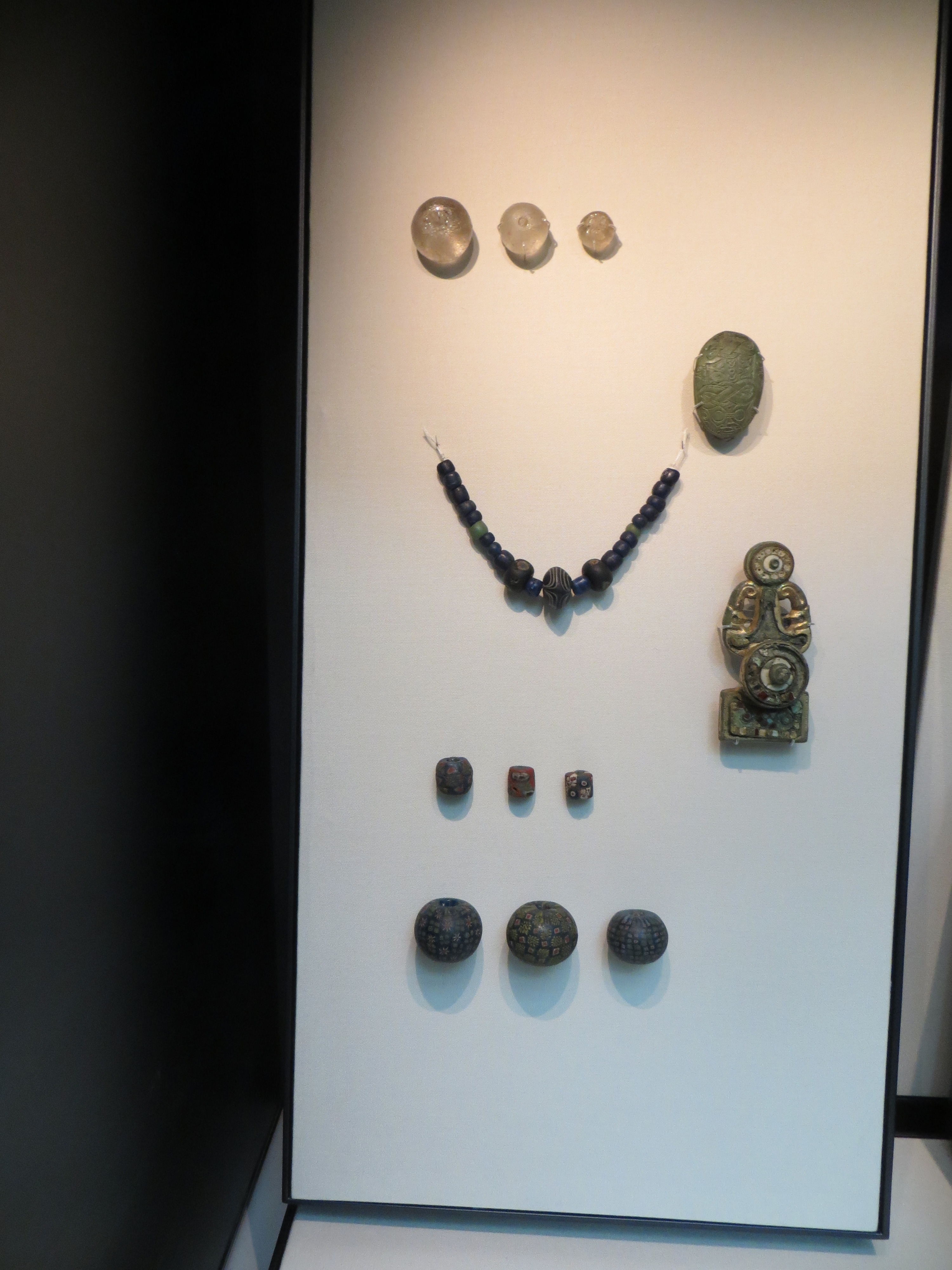 Tromso Burial in the British Museum